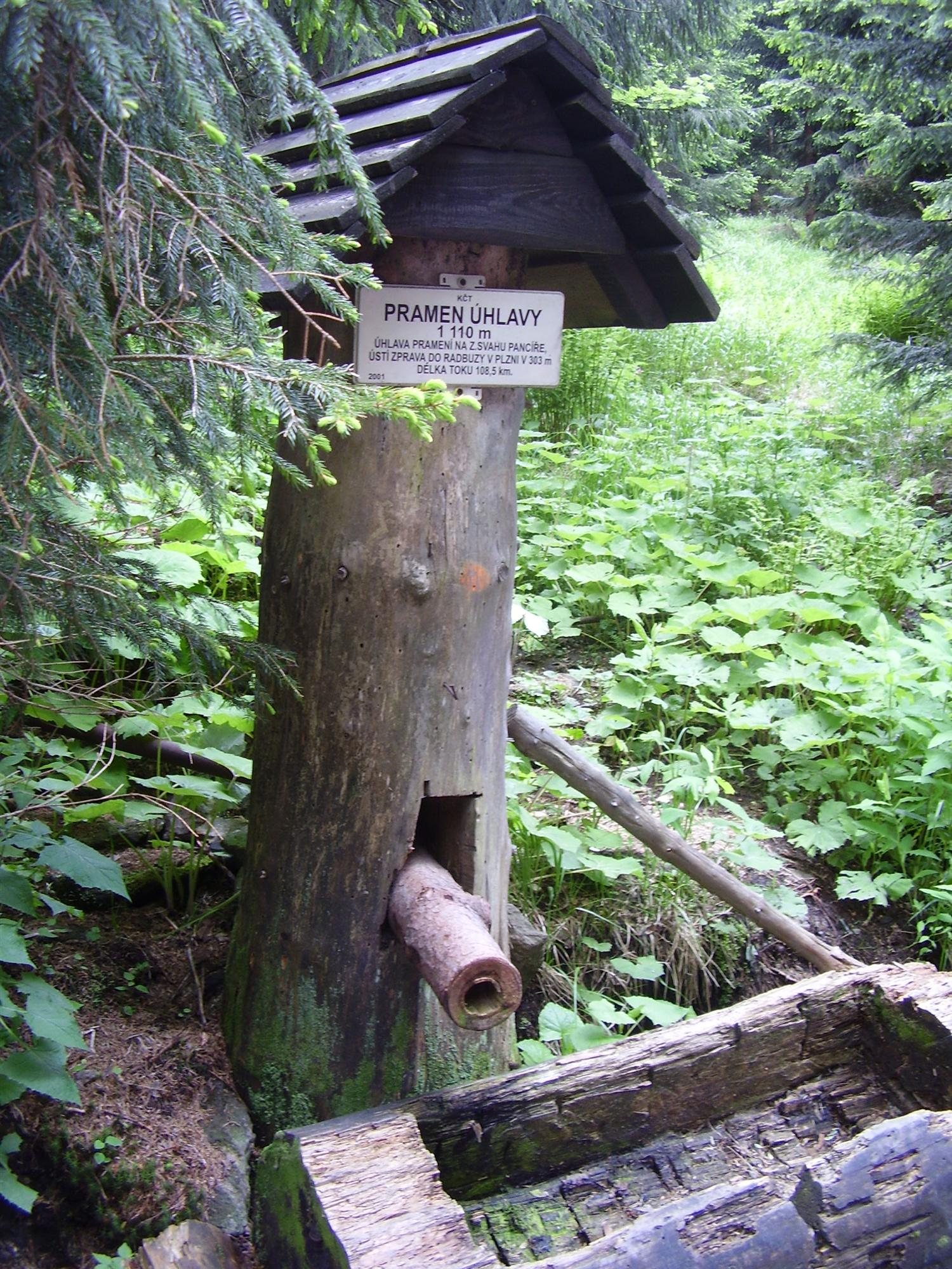 Spring of Úhlava under Pancíř in Šumava